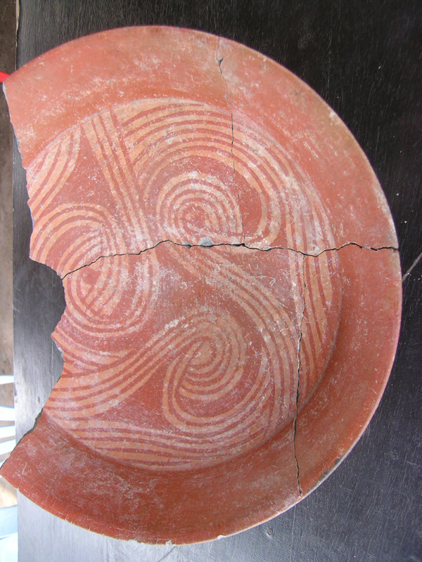 ban non wat